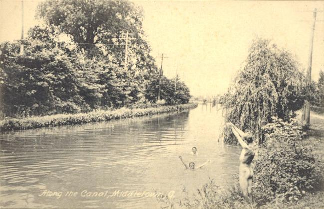 Along the Miami & Erie Canal, Middletown, Ohio; from a c. 1910 postcard.